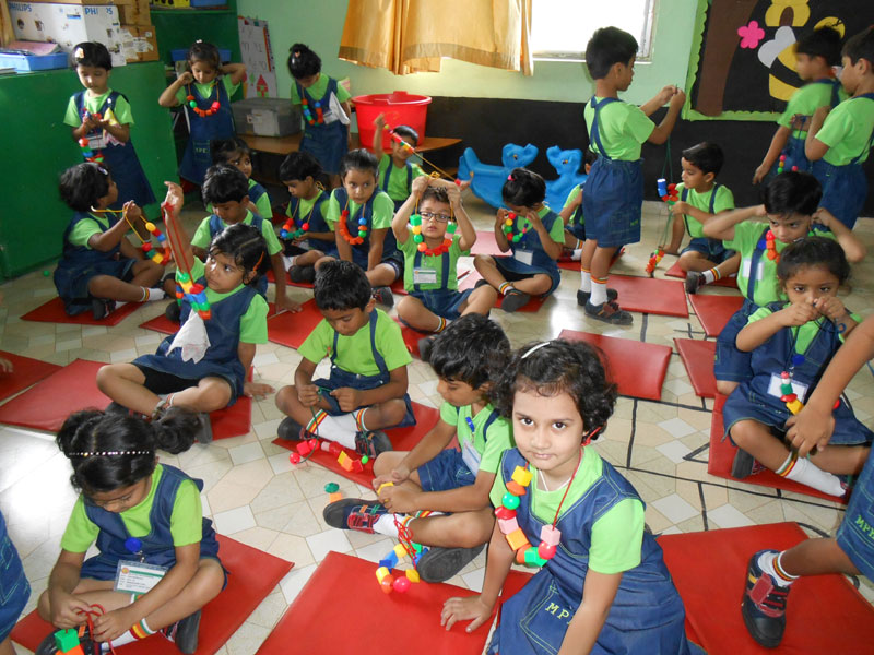 Fine Motor Skills